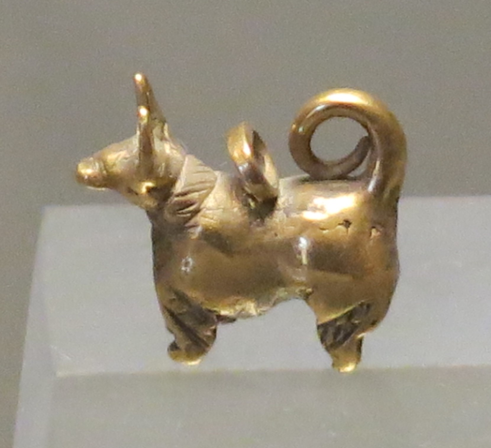 Pendant with a small dog. Gold. Recent Uruk (3300-3100 BC). Height. 1.4 cm ; Long. 1.5 cm. Louvre museum (Paris, France).